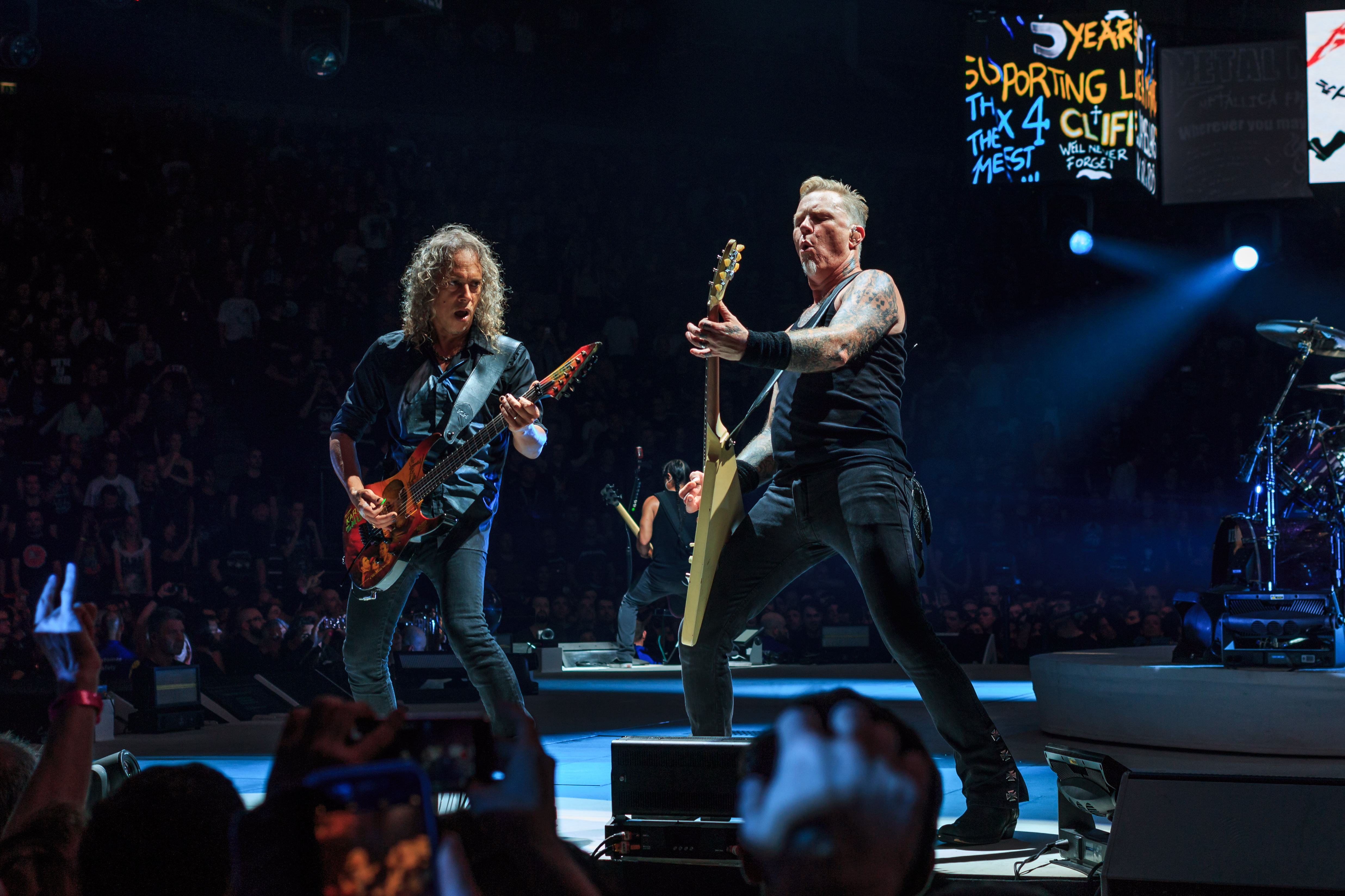 Kirk Hammett and James Hetfield live in London 24 October 2017